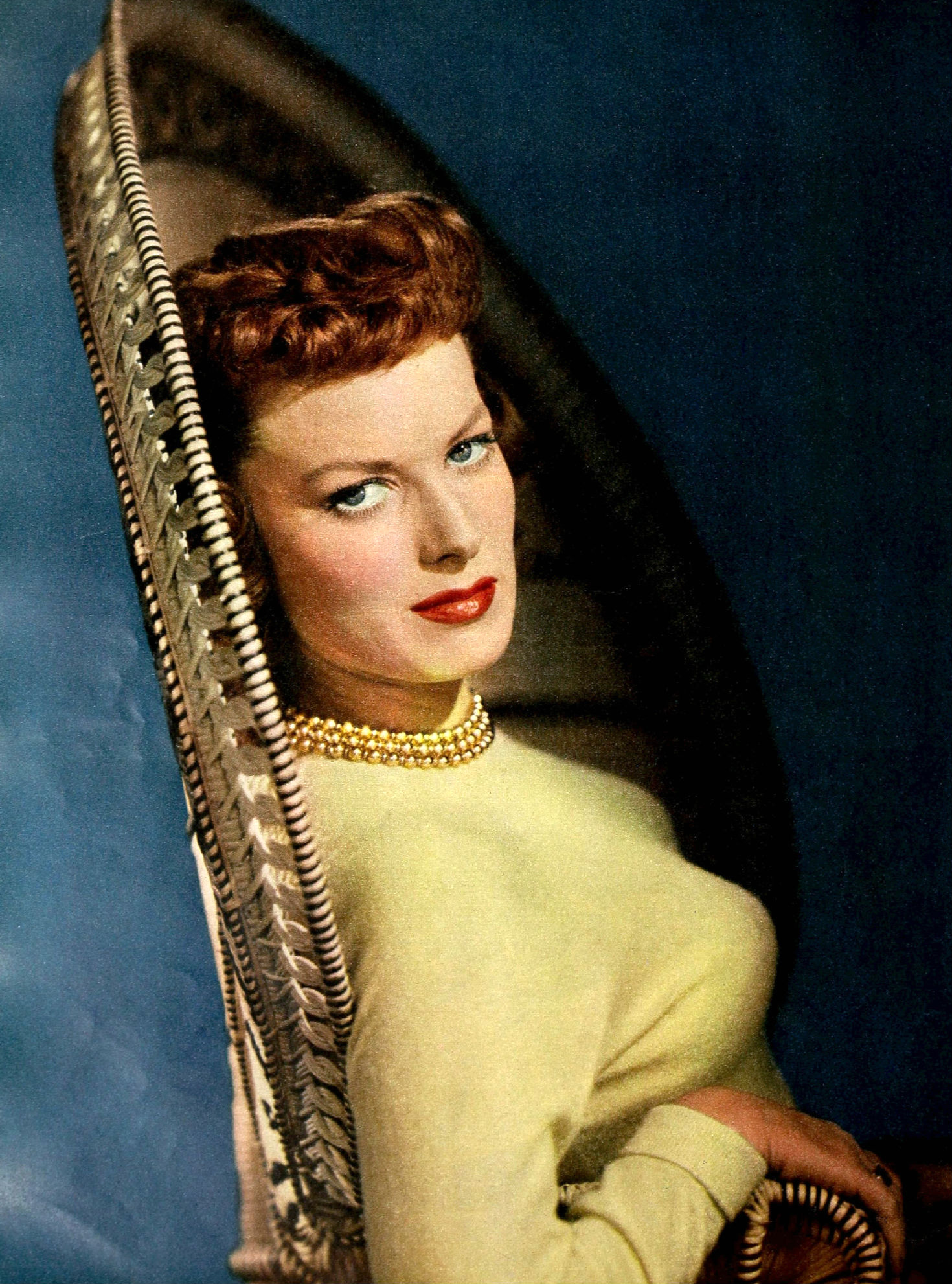 Photo of Maureen O’Hara from Screenland magazine.